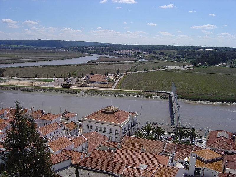 South side view, Alcácer do Sal, Alentejo, Portugal